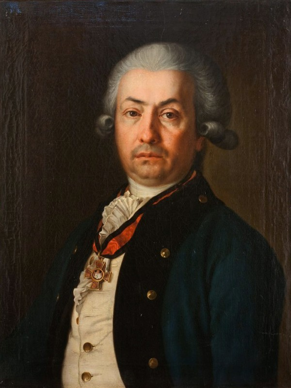 Teodor Janković-Mirijevski (1741-1814), Austrian and later Russian educational reformer of serbian origin